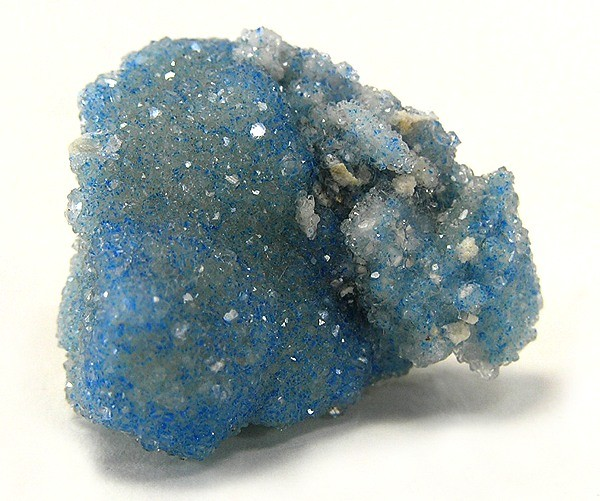 Kinoite Locality: Christmas Mine (Red Bird shafts; Inspiration Mine; Hackberry shafts), Christmas, Christmas area, Banner District, Dripping Spring Mts, Gila County, Arizona, USA (Locality at ) This rare material came out only once in the 60s and has not been seen since - another fine old Arizona rarity out of the Nasser collection! 2.7 x 2.5 x 1.8 cm